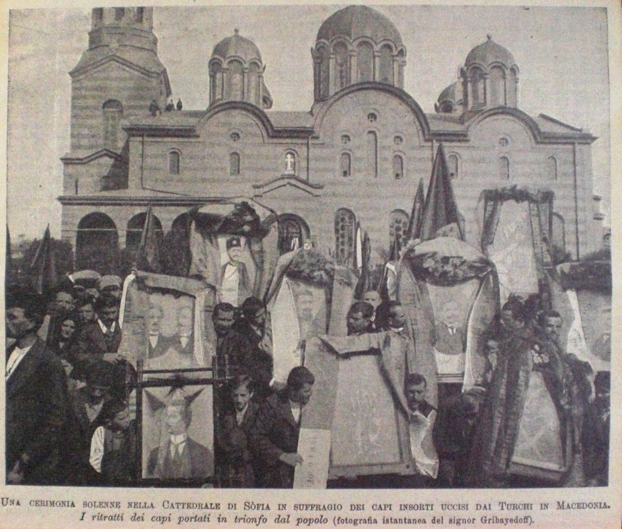 Demonstration of the Bulgarian Immigration from Macedonia in 1903